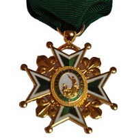 OSLJ cross medium